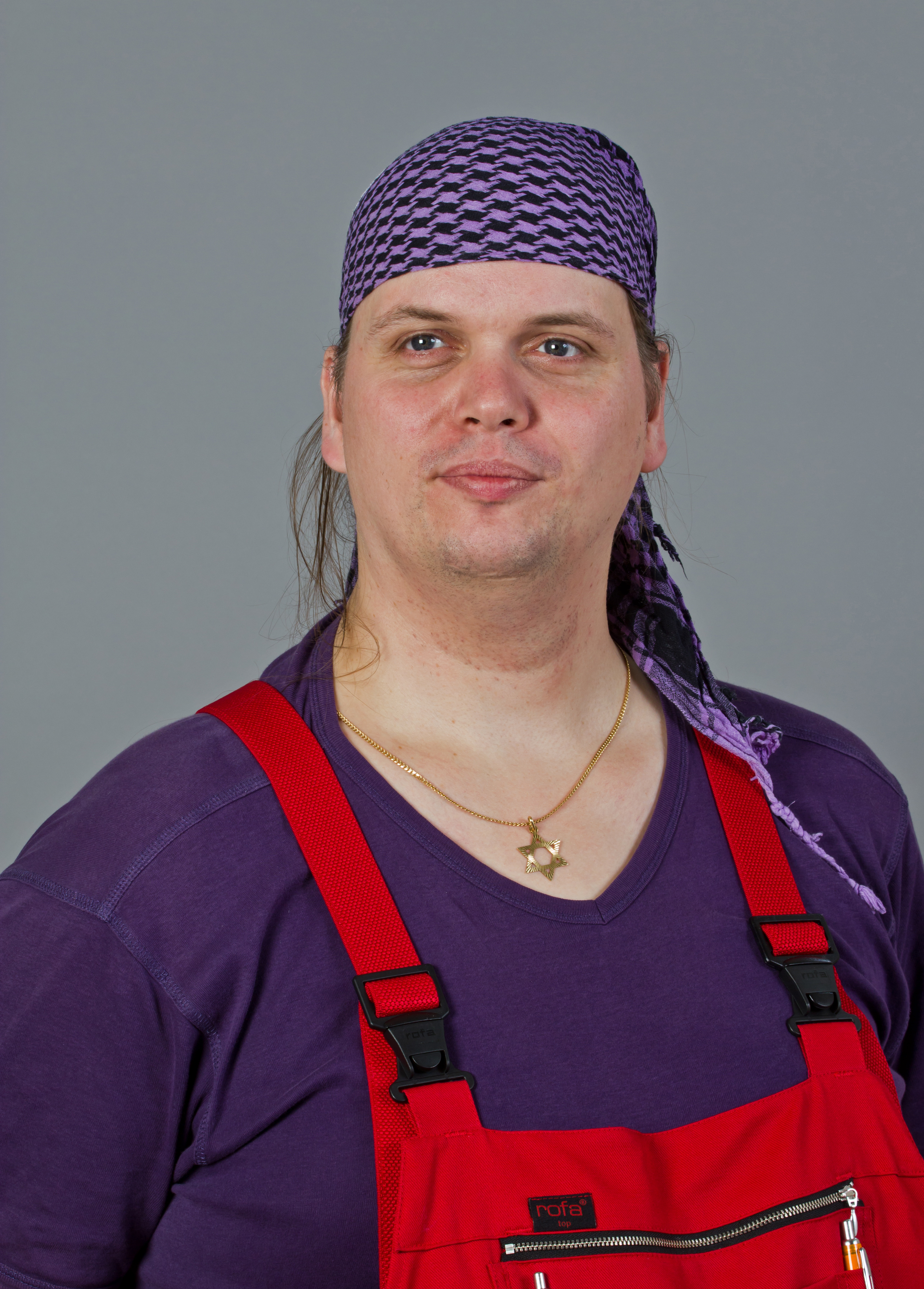 Gerwald Claus-Brunner, politician from Germany, member of Abgeordnetenhaus of Berlin (as of 2013)